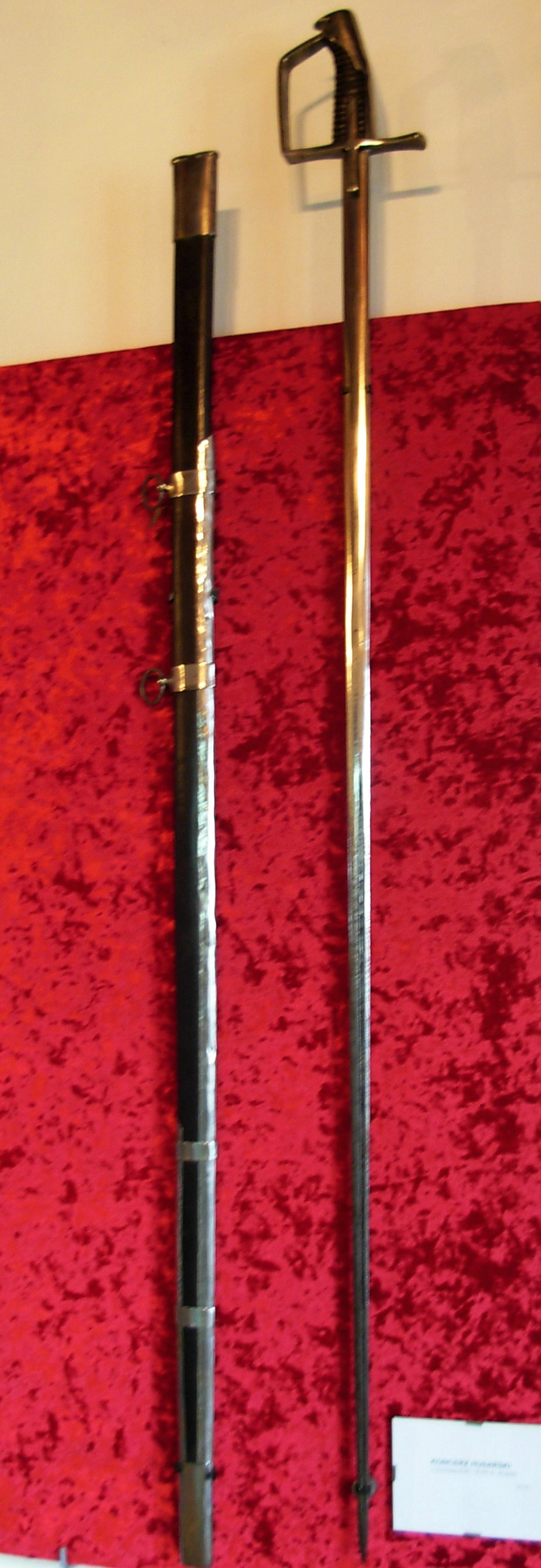 Koncerz from Muzeum Zagłębia in Będzin Castle